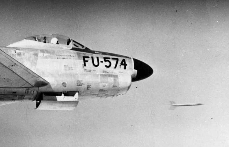 Cropped image of 060829-F-1234S-032.jpg to emphasize the F-86D's armament. 24x2.75 inch 'Mighty Mouse' 'folding fin aircraft rockets' are nested in a retractable rocket tray in the aircraft's belly and could be fired in salvos of 6, 12, and 24.